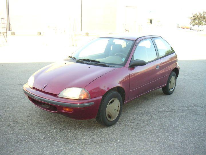 Pontiac Firefly 1997.